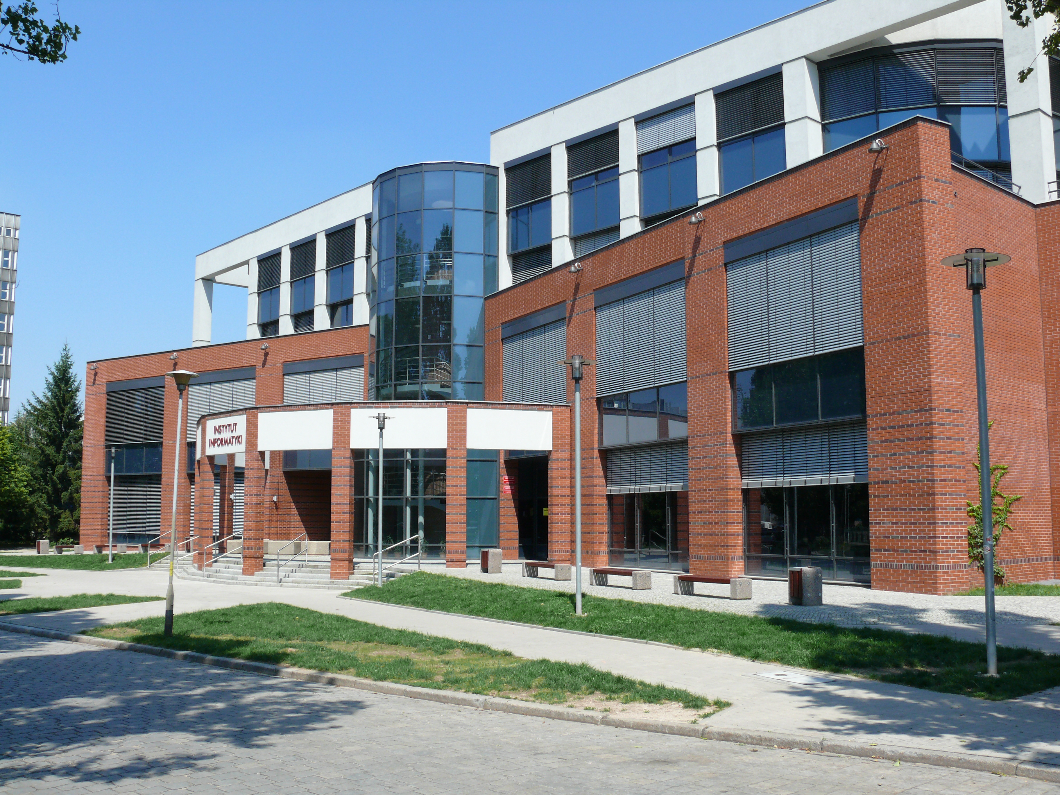 Computer Science Department of the Wroclaw University